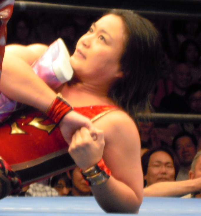 Japanese professional wrestler,Meiko Satomura.Sep 23 2010 Ice Ribbon Korakuen Hall.